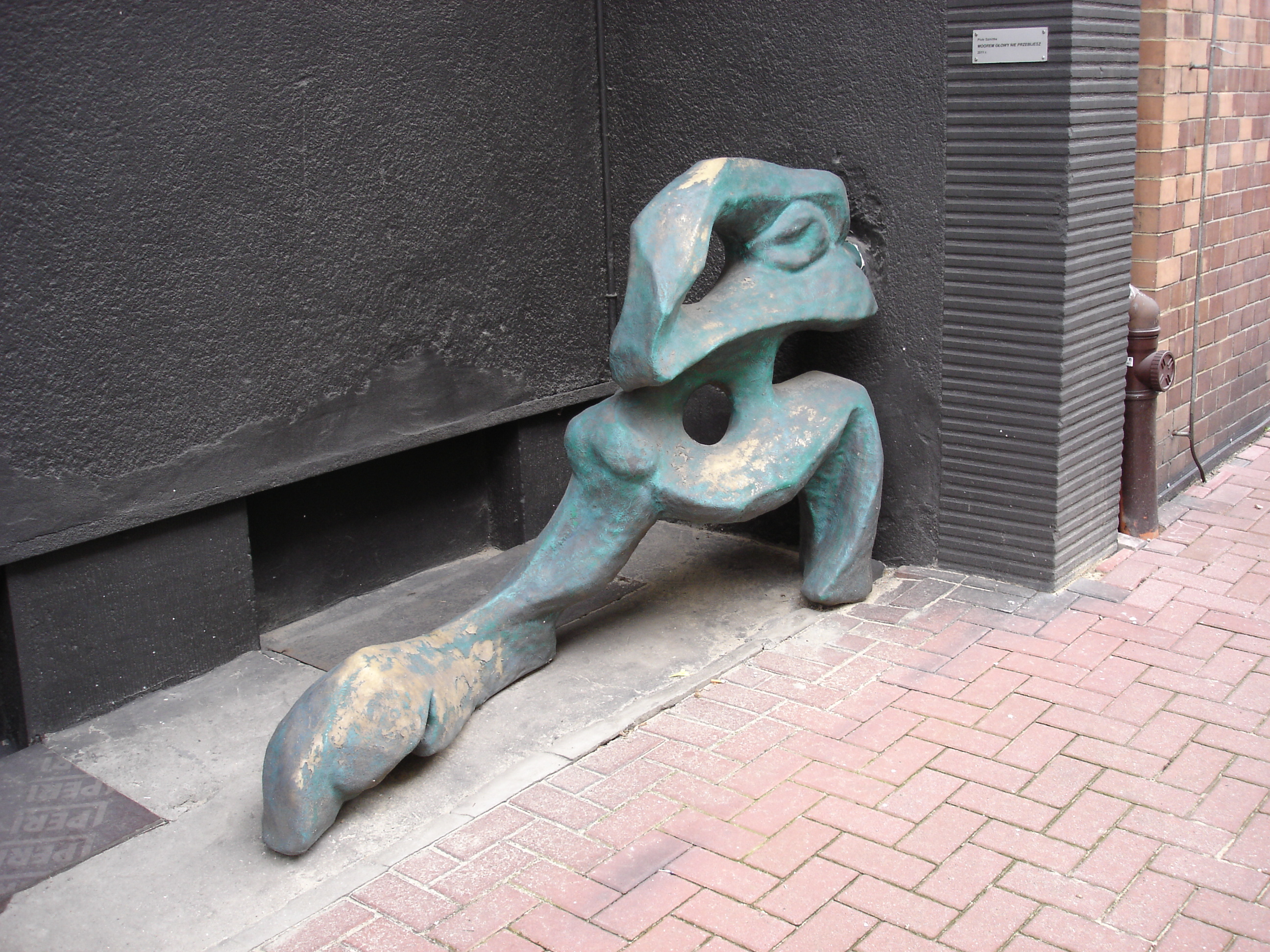 "Moorem głowy nie przebijesz" (allusion to artist Henry Moore), 2011, sculpture by Piotr Szmitke, ks. Józefa Szafranka 11 street, Katowice, Poland